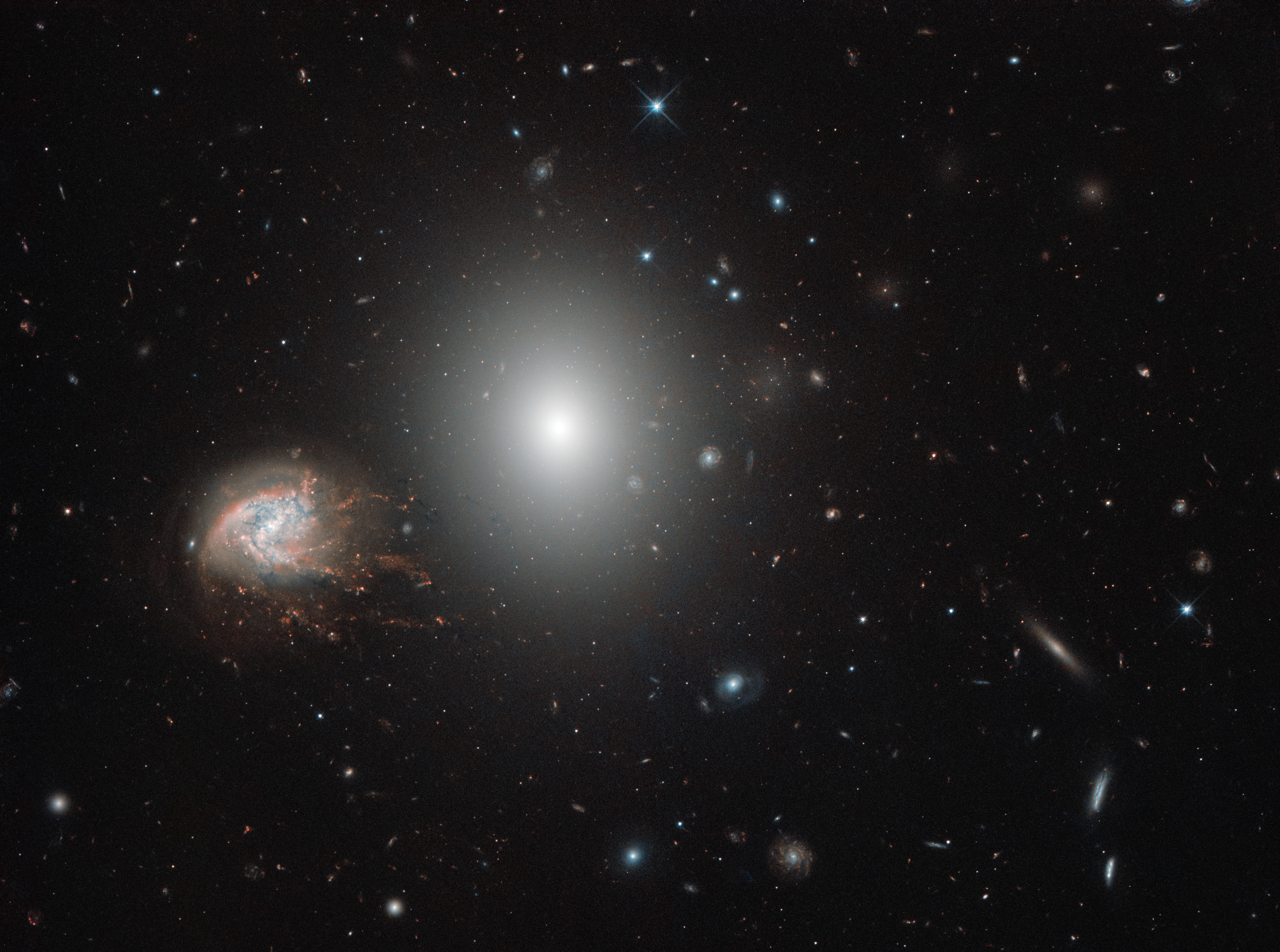 In the northern constellation of Coma Berenices (Berenice's Hair) lies the impressive Coma Cluster — a structure of over a thousand galaxies bound together by gravity. Many of these galaxies are elliptical types, as is the brighter of the two galaxies dominating this image: NGC 4860 (centre). However, the outskirts of the cluster also host younger spiral galaxies that proudly display their swirling arms. Again, this image shows a wonderful example of such a galaxy in the shape of the beautiful NGC 4858, which can be seen to the left of its bright neighbour and which stands out on account of its unusual, tangled, fiery appearance. NGC 4858 is special. Rather than being a simple spiral, it is something called a “galaxy aggregate”, which is, just as the name suggests, a central galaxy surrounded by a handful of luminous knots of material that seem to stem from it, extending and tearing away and adding to or altering its overall structure. It is also experiencing an extremely high rate of star formation, possibly triggered by an earlier interaction with another galaxy. As we see it, NGC 4858 is forming stars so frantically that it will use up all of its gas long before it reaches the end of its life. The colour of its bright knots indicates that they are formed of hydrogen, which glows in various shades of bright red as it is energised by the many young, hot stars lurking within. This scene was captured by the NASA/ESA Hubble Space Telescope’s Wide Field Camera 3 (WFC3), a powerful camera designed to explore the evolution of stars and galaxies in the early Universe.